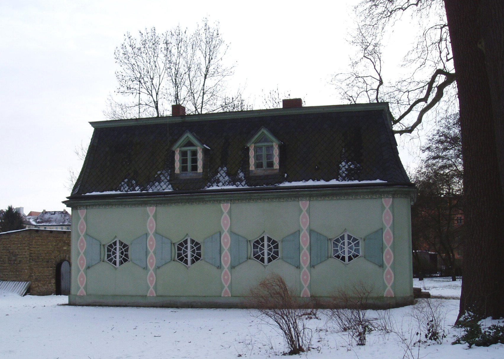 The former 'Chinese Kitchen' near the Chinese House in Sanssouci Park, Potsdam